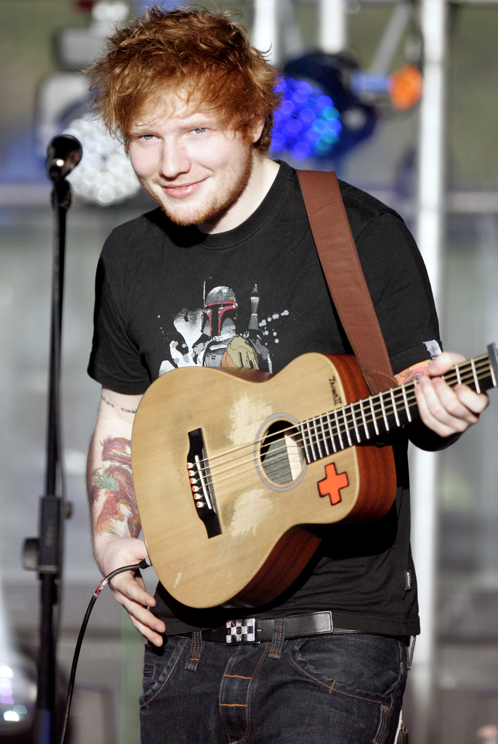 Ed Sheeran performs for Channel Seven's morning program Sunrise and Nova969 in Sydney 2013.